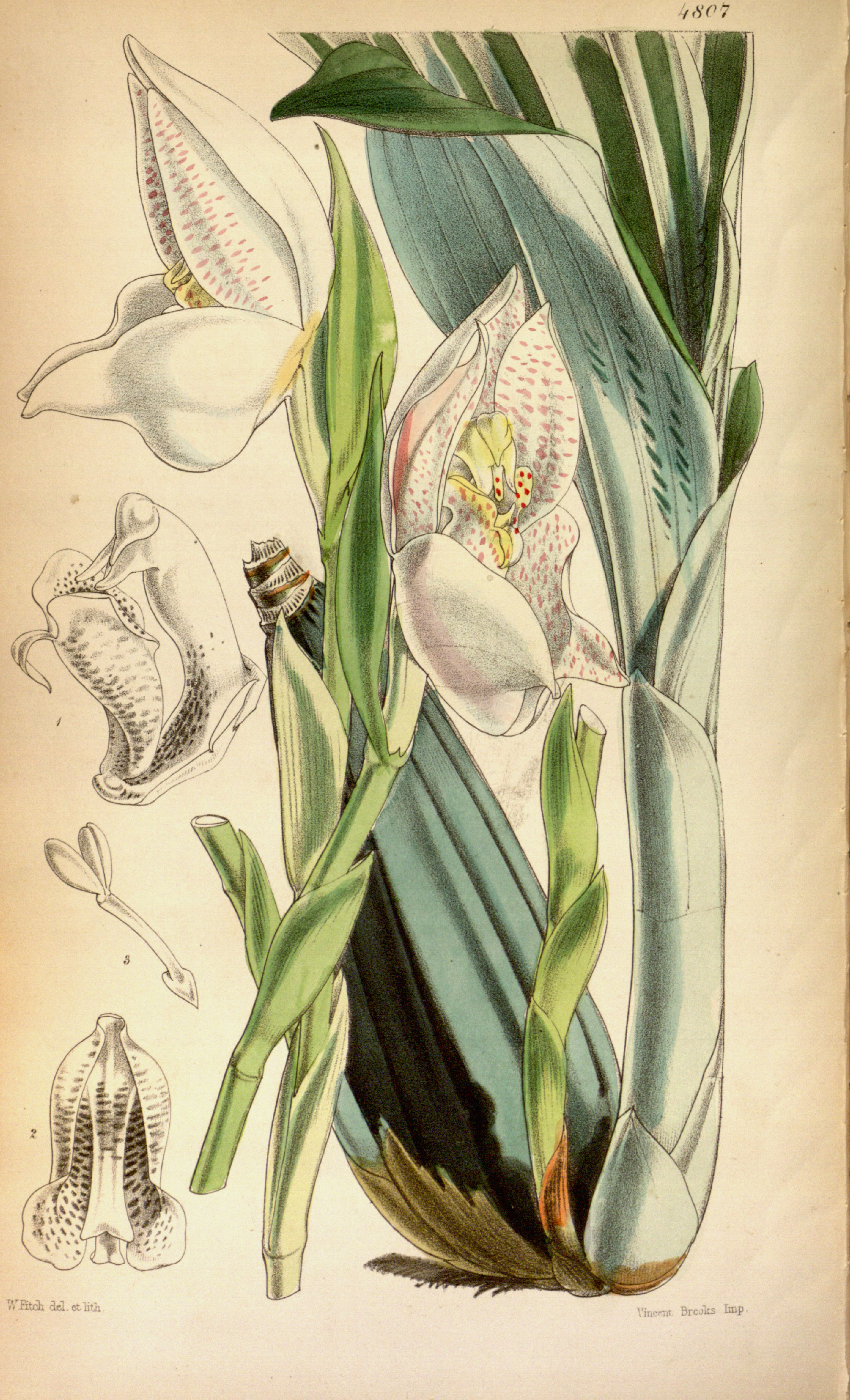 Illustration of Anguloa uniflora